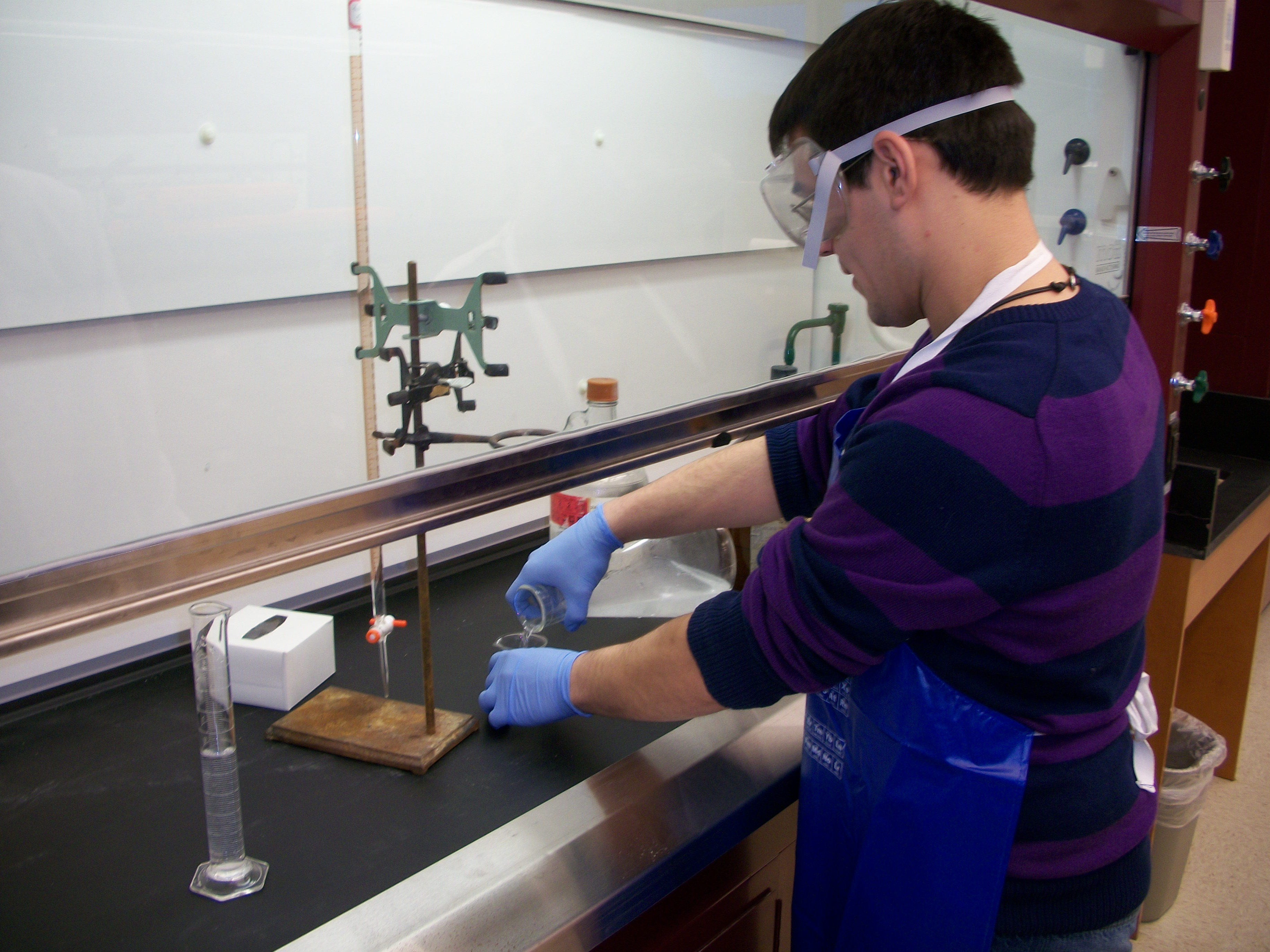 Senior undergraduate John Proetta working in the fume hood in a chemistry laboratory.